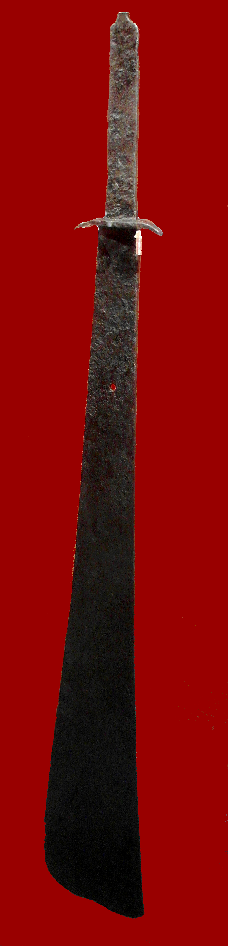 Gladius Sancti Petri, Poznań